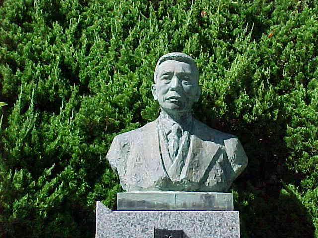 Bronze statue of Dr Hata Sahachiro, at Hata Memorial Museum, Shimane